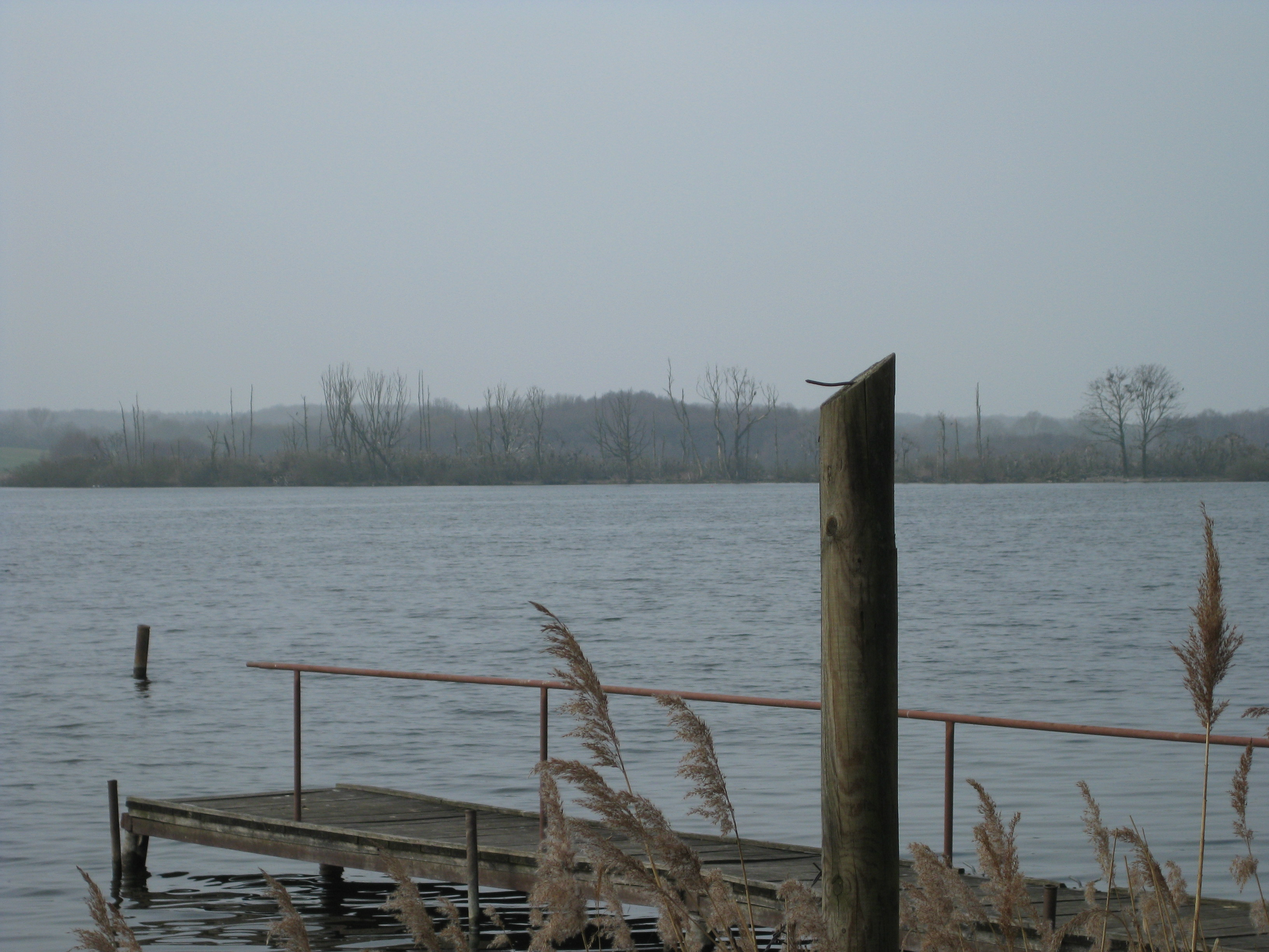 Röggeliner See, a lake in Landkreis Nordwestmecklenburg, seen from Klocksdorf